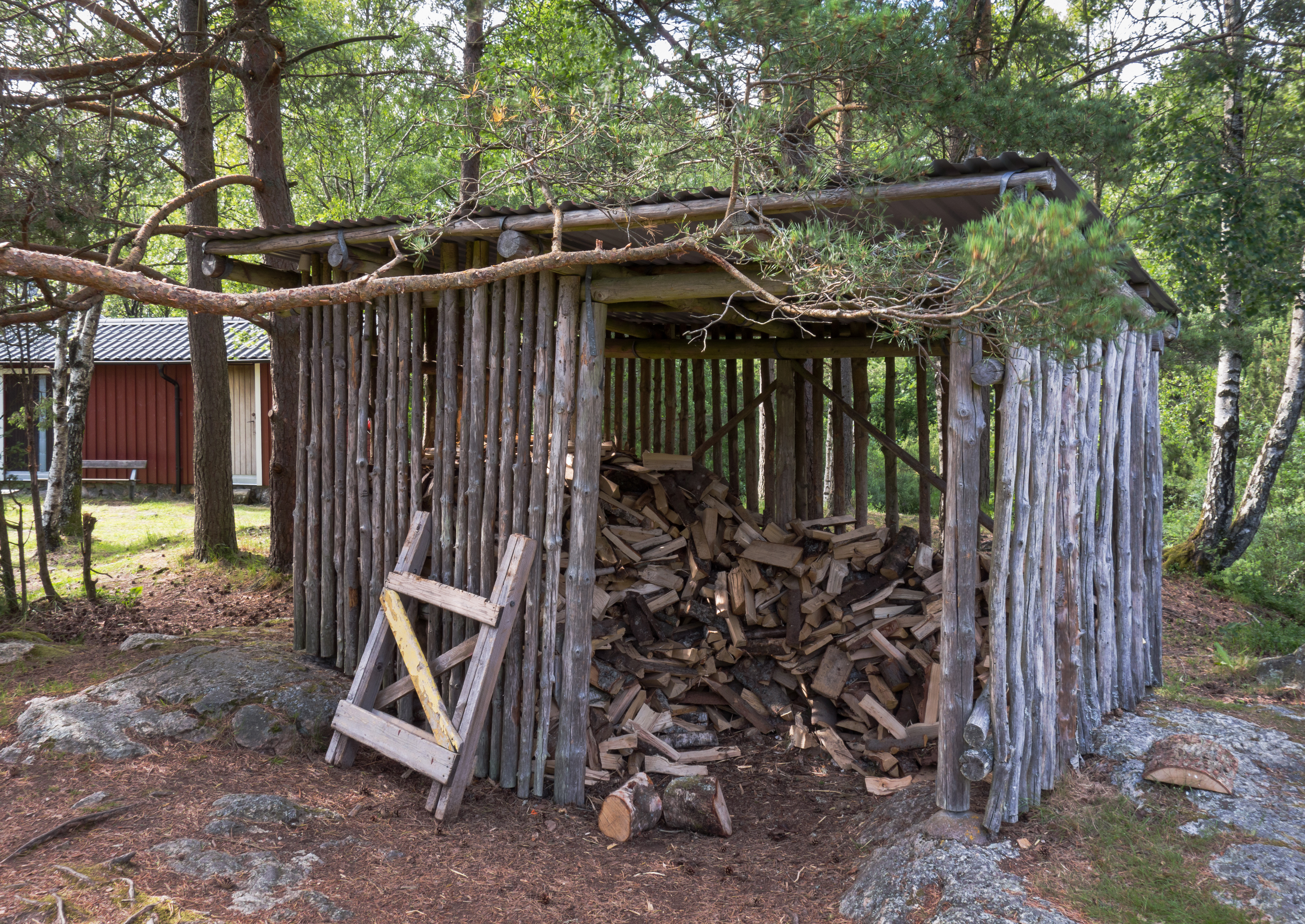 Wood shed at Fjällastugan in Gullmarsskogen nature reserve, Lysekil Municipality, Sweden.